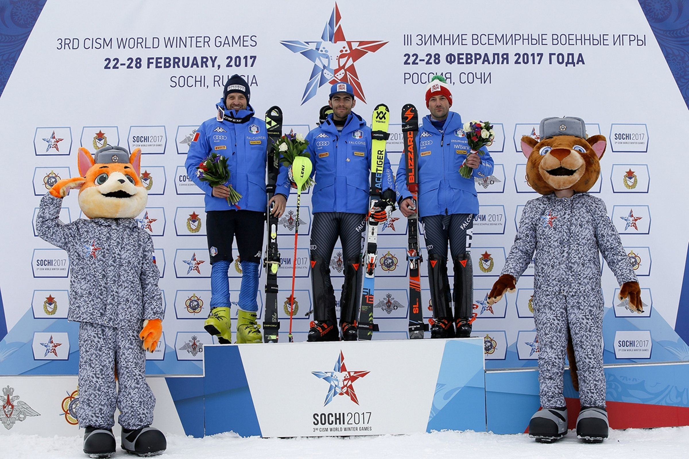 МЁЛЬГГ МАНФРЕД (Италия) второе место, ГРОСС СТЕФАНО (Италия) первое место и ДЕВИЛЛЕ Кристиан (Италия) третье. Горнолыжный спорт, слалом, мужчины. III Зимние Всемирные военные игры. Горнолыжный центр «Роза Хутор», Сочи, Россия. 25 февраля 2017. Фото Sergey Kivrin/CISM2017MOELGG MANFRED (Italy) second place, GROSS STEFANO (Italy) first place and DEVILLE Cristian (Italy) third place. Alpine Skiing, Slalom, Men. 3rd CISM World Winter Games. Rosa Khutor Alpine Skiing Centre, Sochi, Russian Federation. February 25, 2017. Photo by Sergey Kivrin/CISM2017